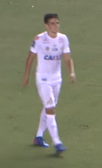 Santos FC player Léo Cittadini in action against Linense.